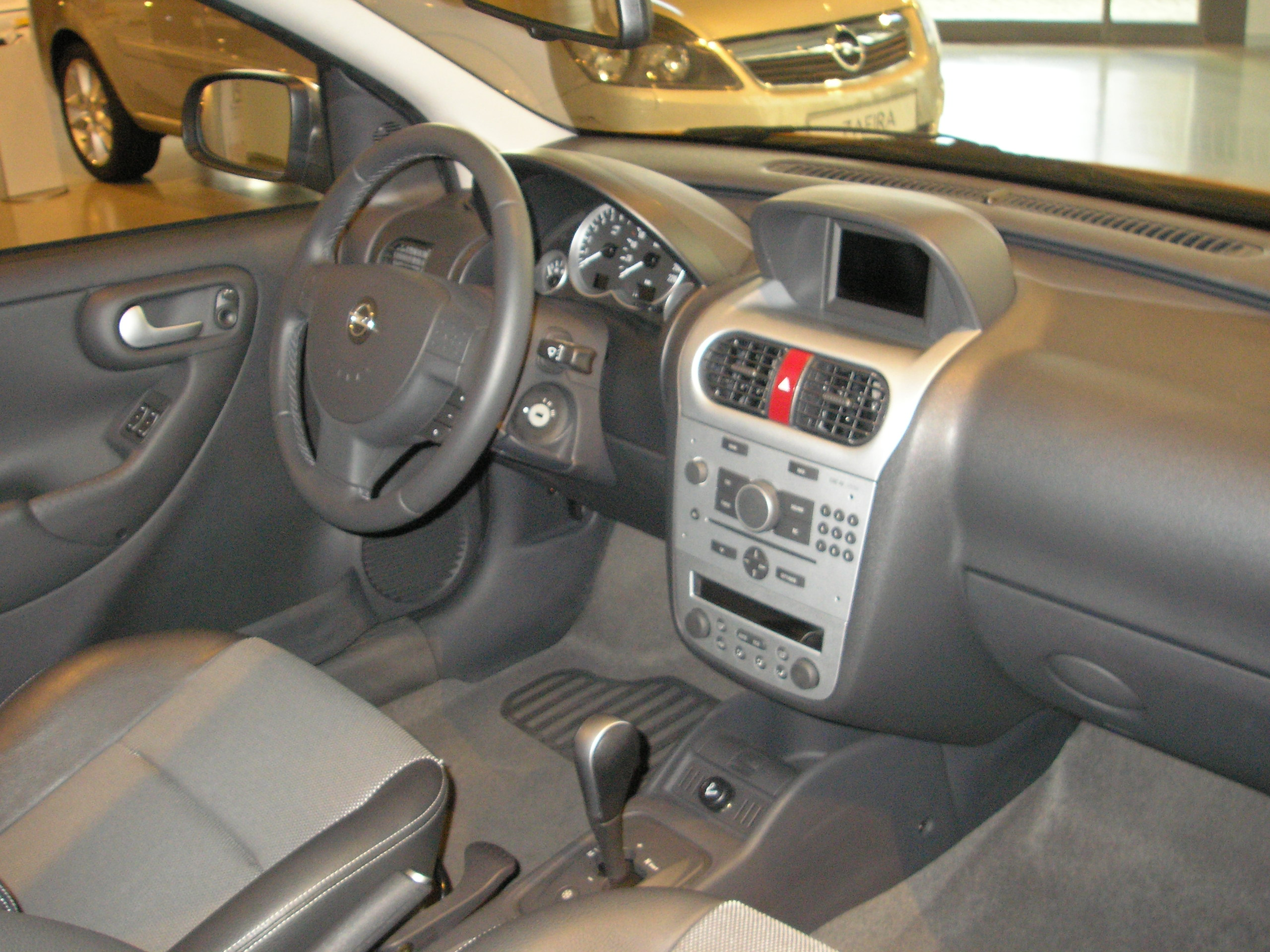 Description: Interior of Opel Corsa, image taken at the Opel Zentrum in Berlin at Friedrichstraße. Source: self-made, I release it into the public domain. Gryffindor 17:25, 9 March 2006 (UTC)